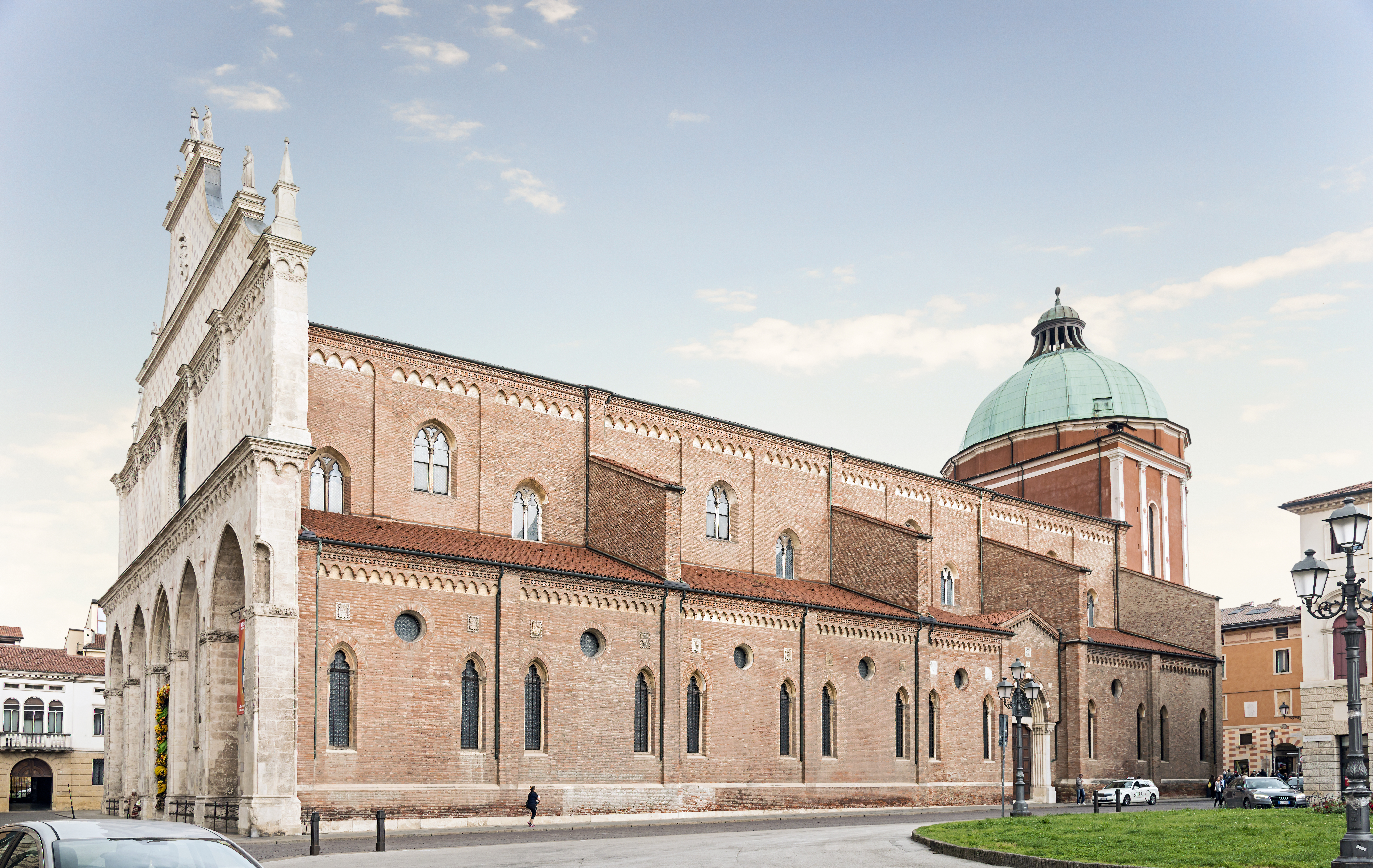 Vicenza Cathedral view of the Piazza del Duomo.